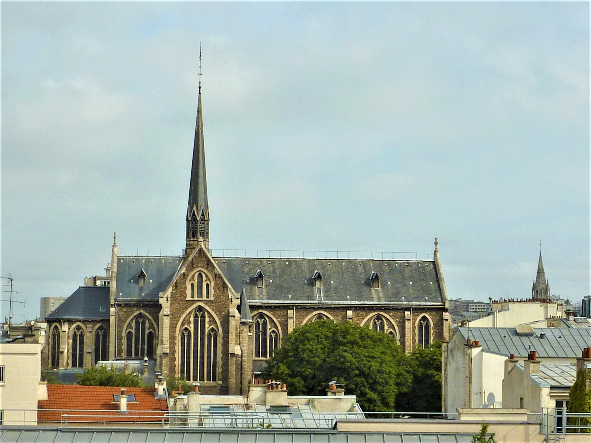 Église Notre-Dame-du-Perpétuel-Secours (Paris). In the background on the right the church spire of Église Notre-Dame-de-la-Croix de Ménilmontant.